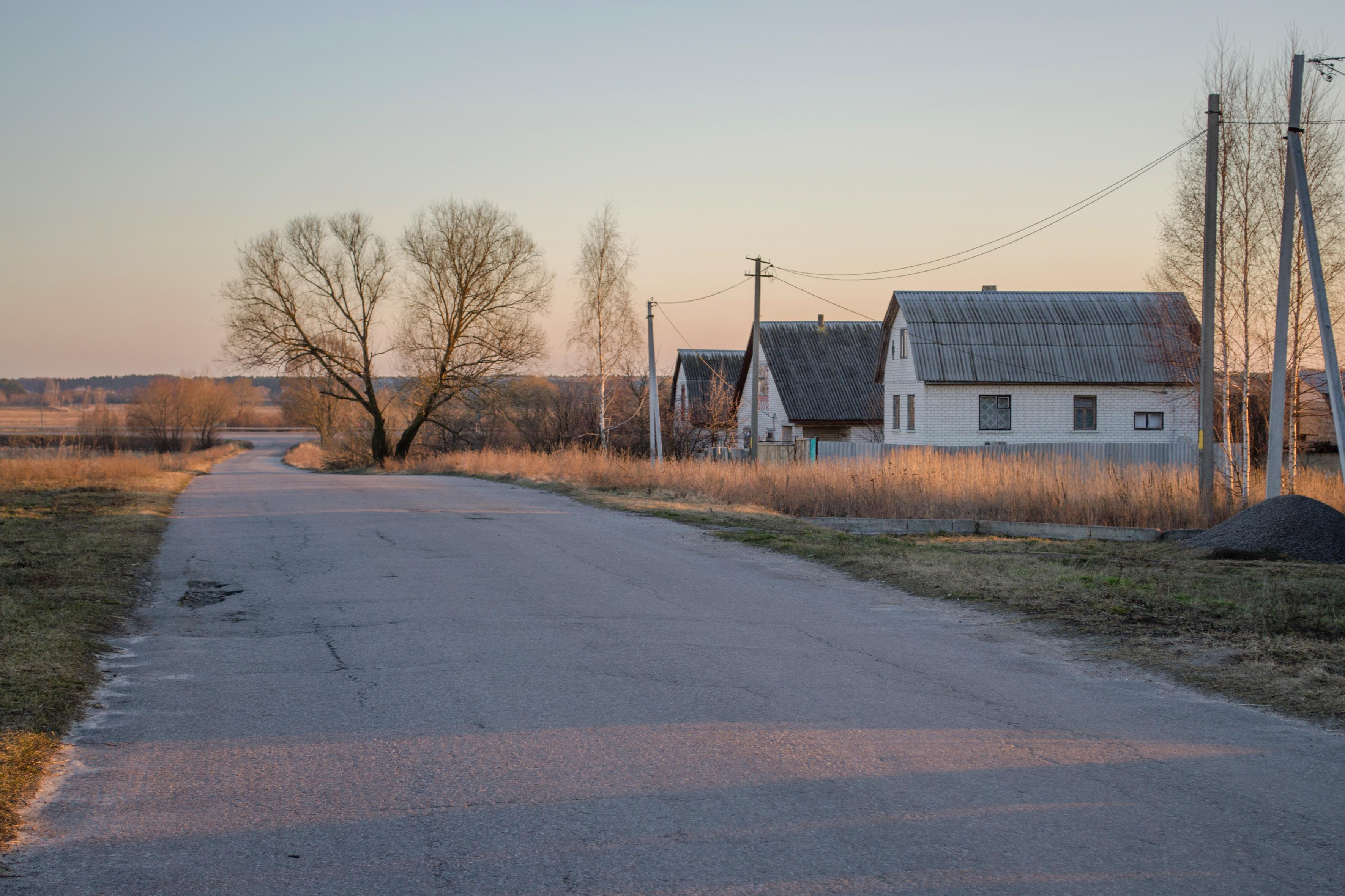 v.Desnyanka, Chernihiv Raion, Chernihiv Oblast, Ukraine